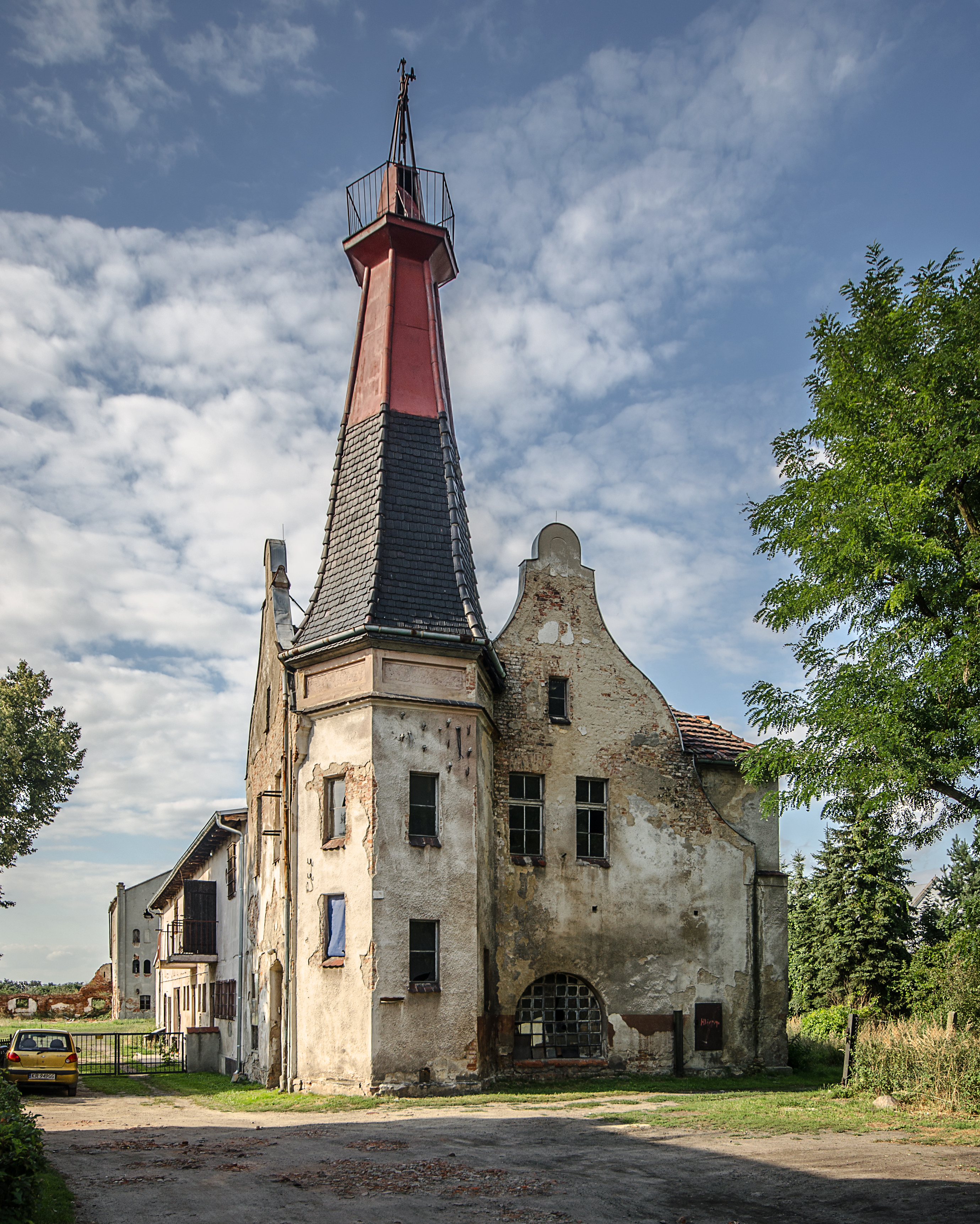 Palace of Arndt Family in Małujowice, Opole Voivodeship